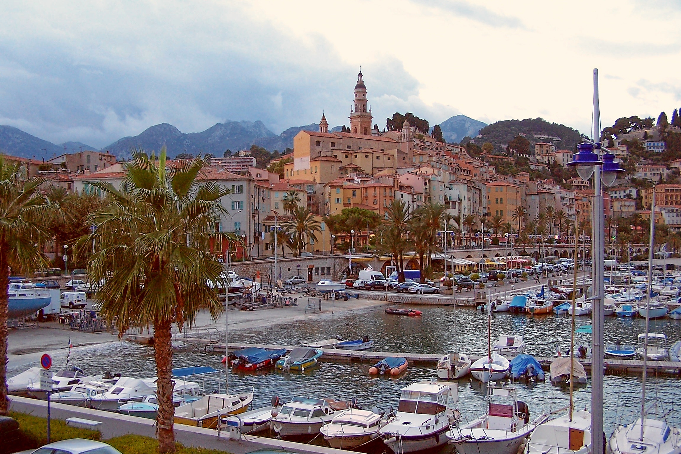 Menton at the French Riviera, Cote d'Azur.